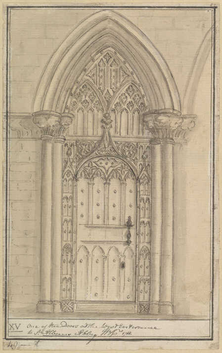 West Entrance to St Albans Abbey, England.